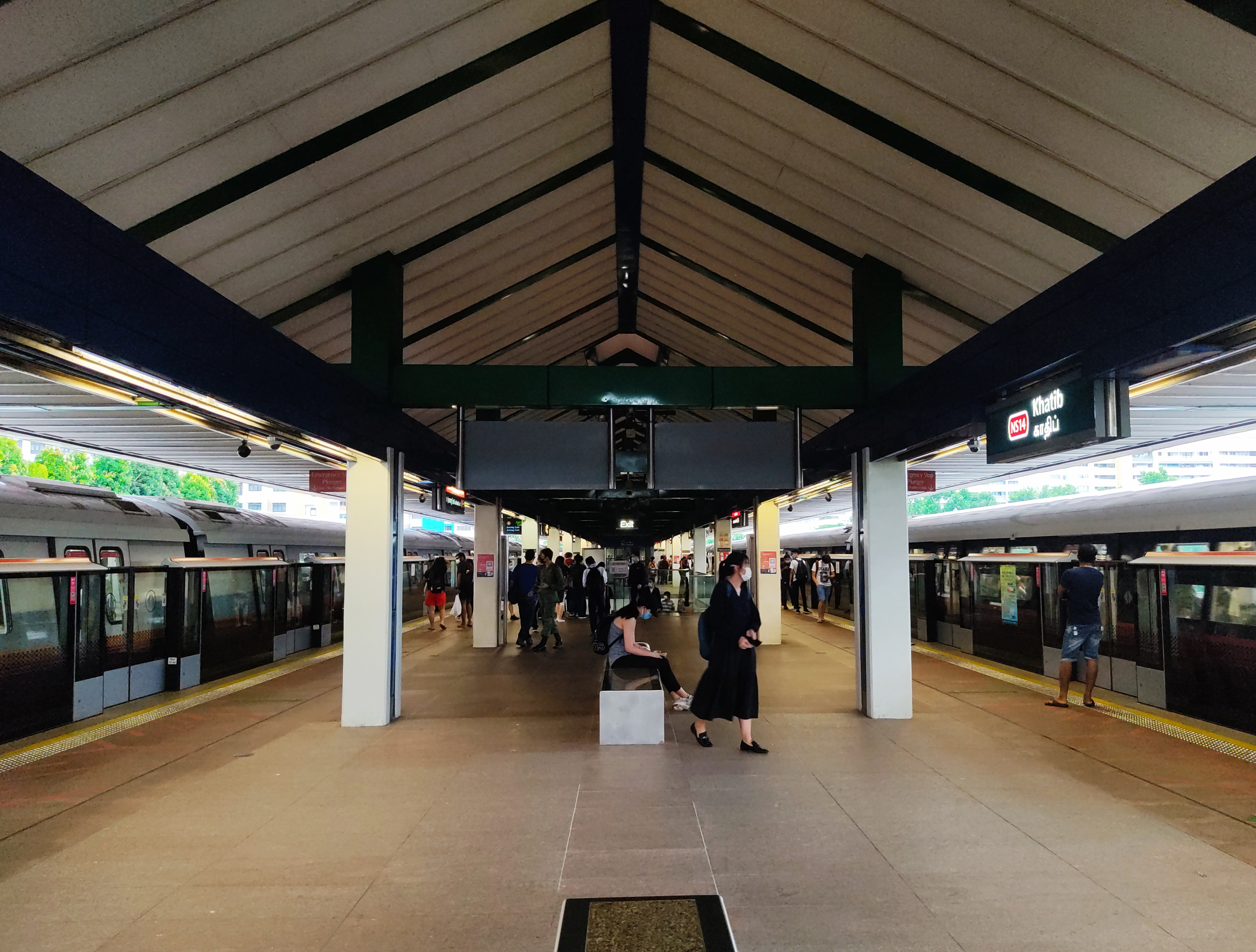 Khatib station This file supersedes the file NS14 Khatib Platforms-1.jpg. It is recommended to use this file rather than the other one.